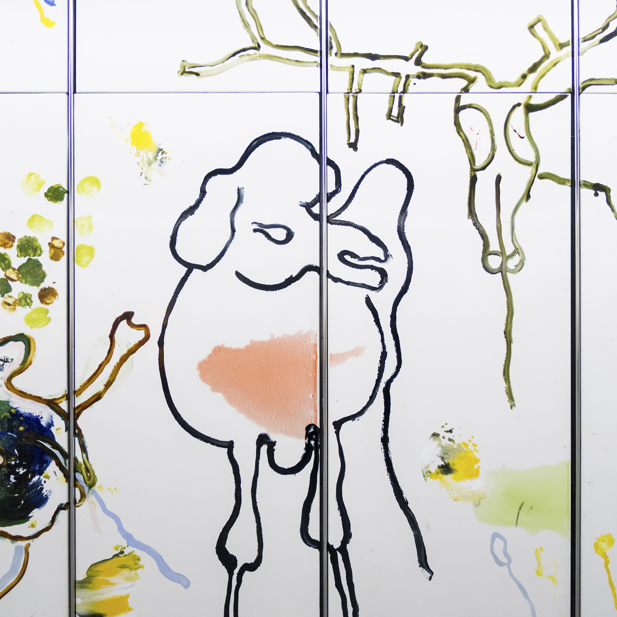 Underground station Bahnhof Wien Mitte in Vienna